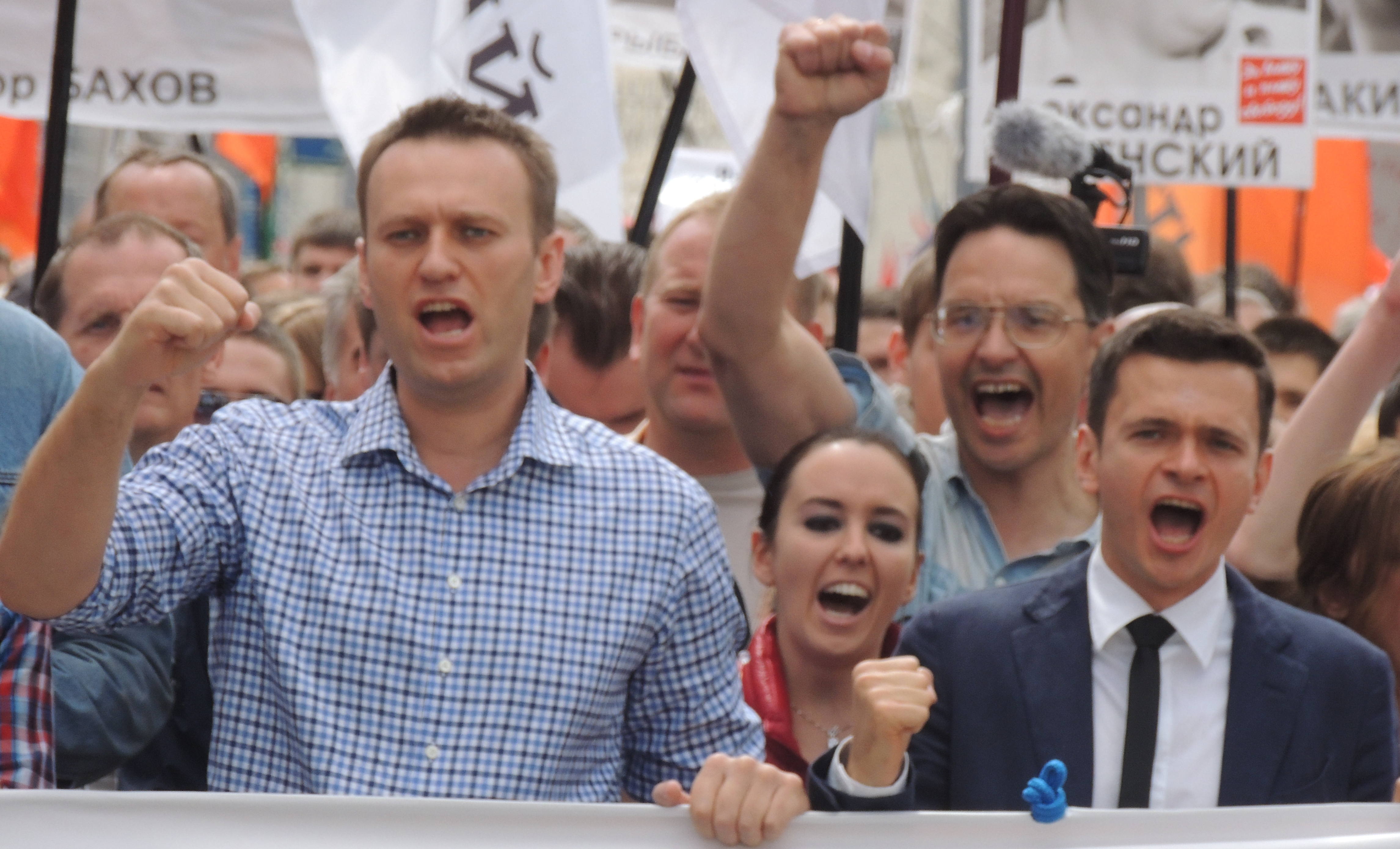 Alexey Navalny, Anna Veduta and Ilya Yashin at Moscow rally 2013-06-12